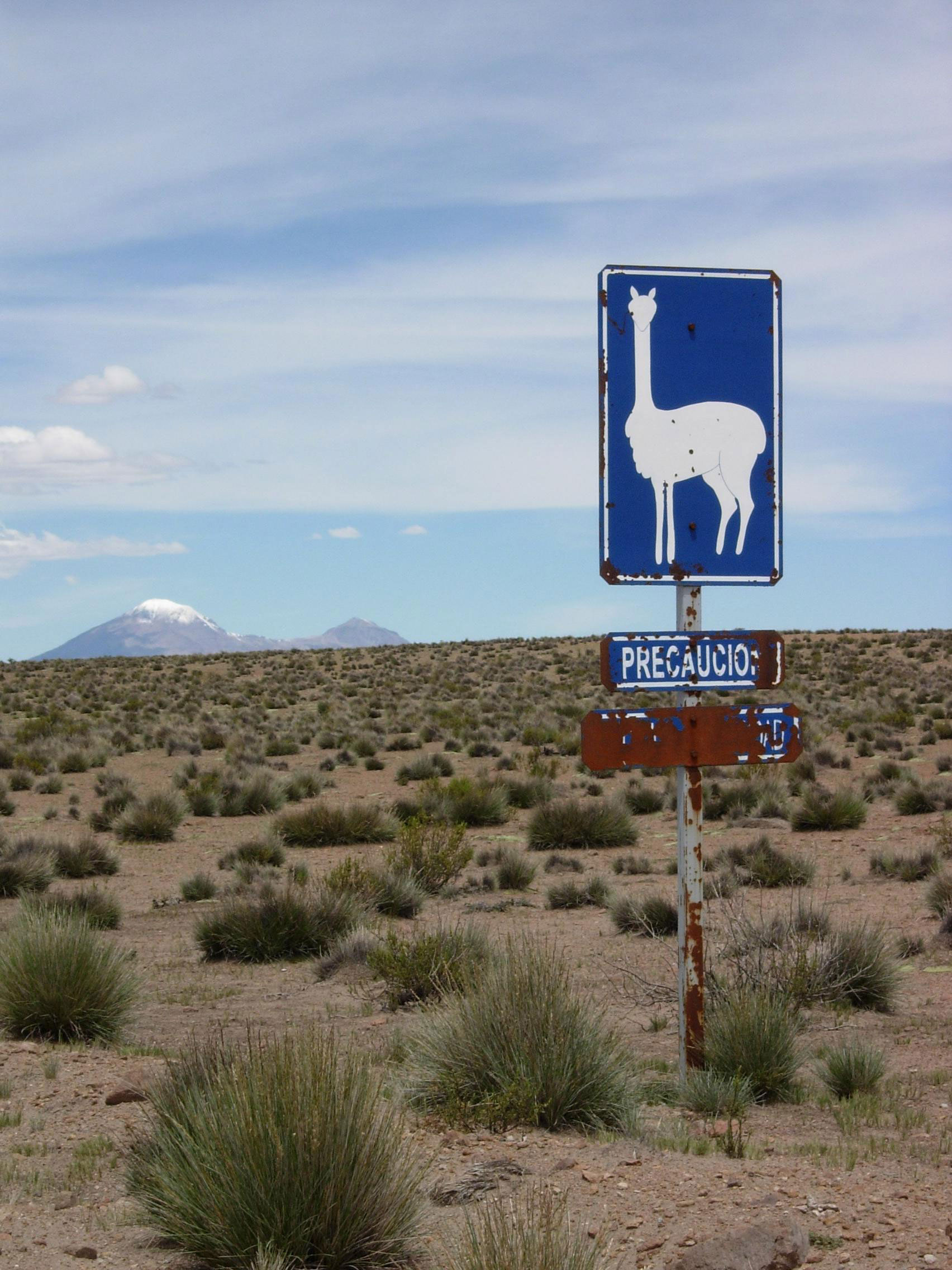 Road sign at the edge of the main street (even added)